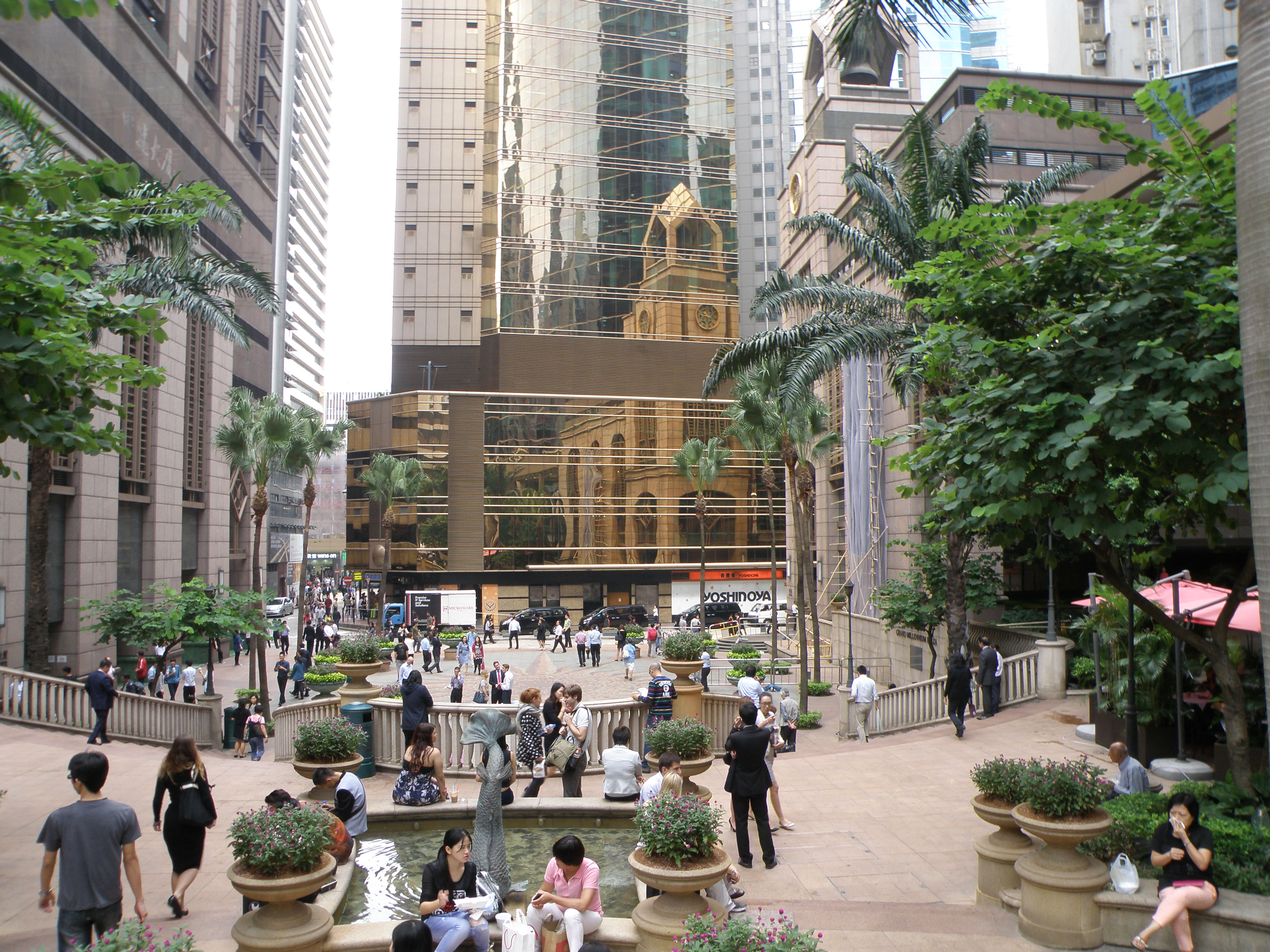 Former Wing Sing Street in Sheung Wan, Hong Kong.